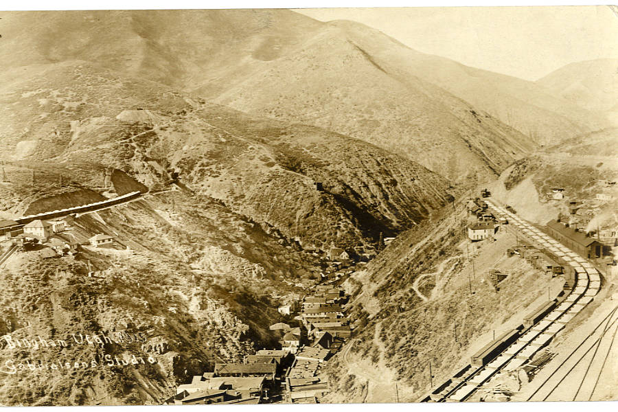 Persistent URL: Subject (TGM): Aerial views; Mountains; Cities and towns